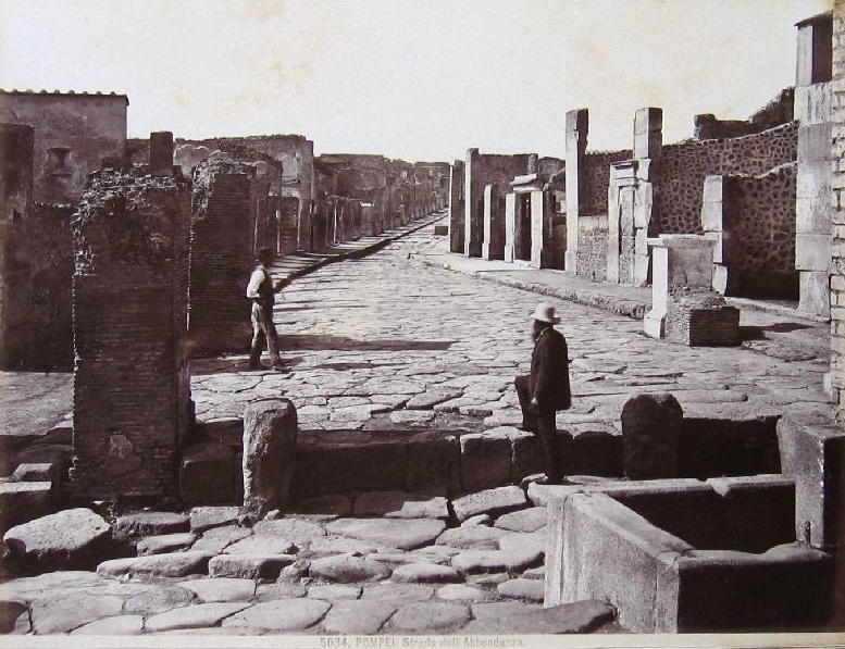 Giacomo Brogi (1822-1881), "Pompeii. Street of Abundance". Catalogue # 5034.